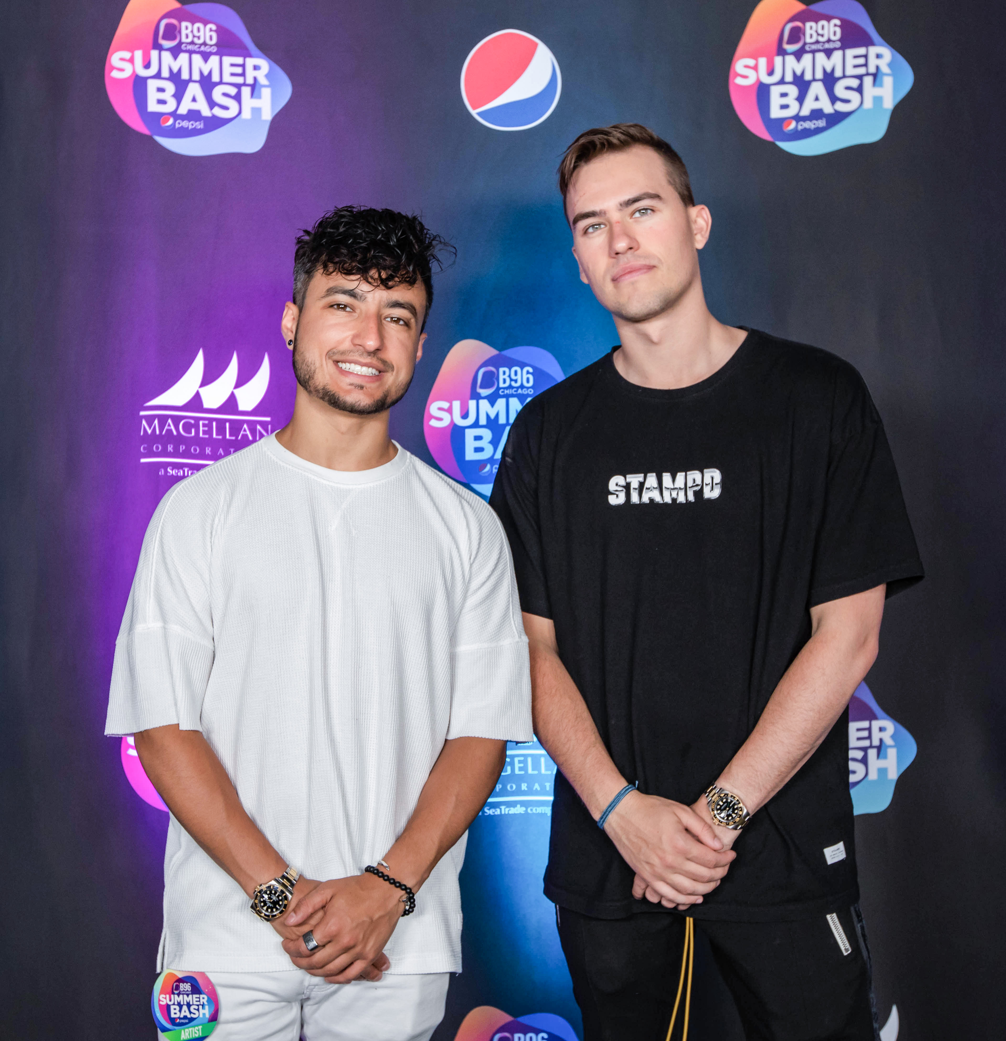 Loud Luxury at the B96 Pepsi Summer Bash 2019.